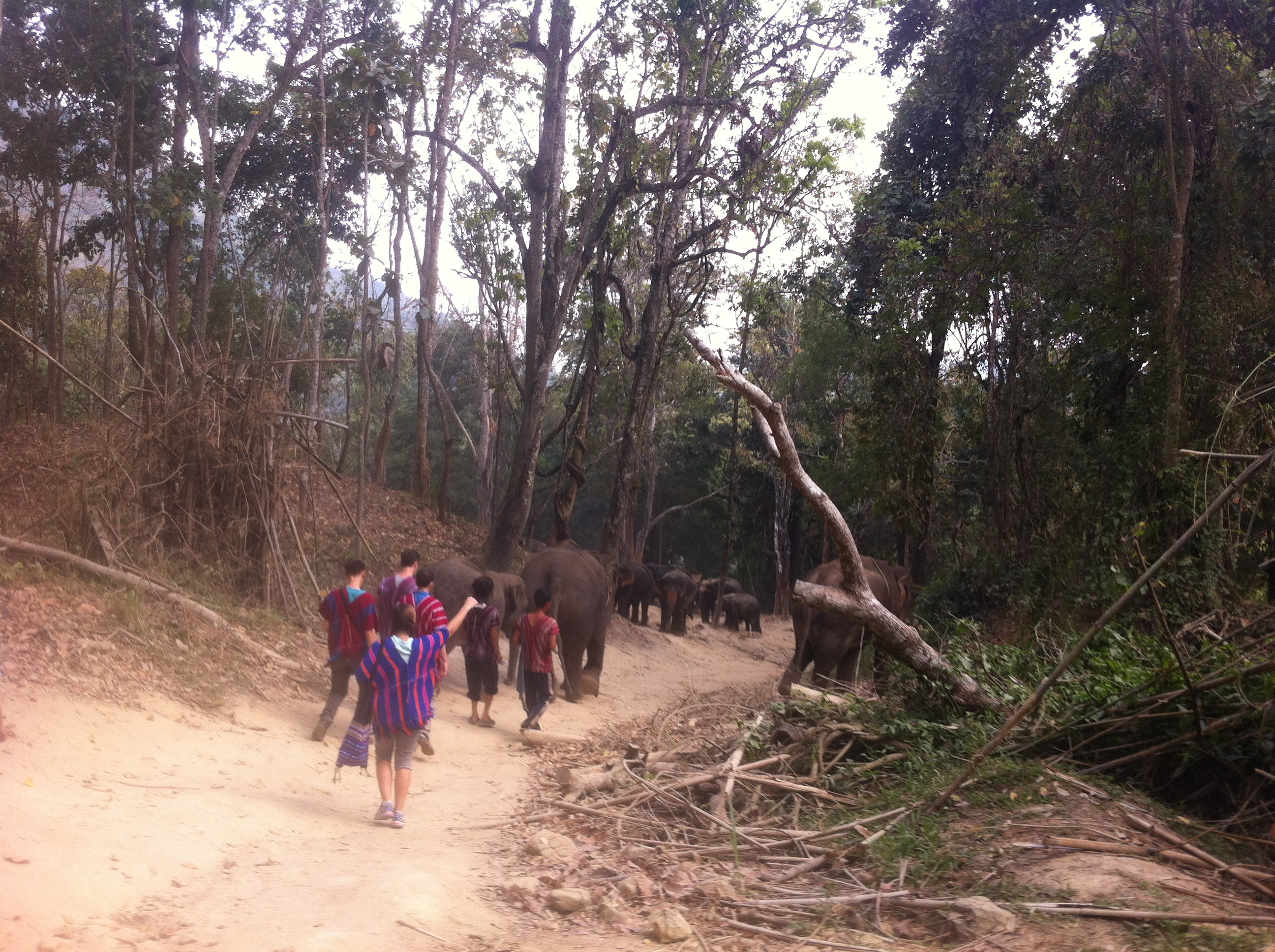 Visitors being led to meet the elephant they will be taking care of for the day at Patara Elephant Farm near Chiang Mai, Thailand. They are wearing the shirts and pants traditionally worn by mahouts.